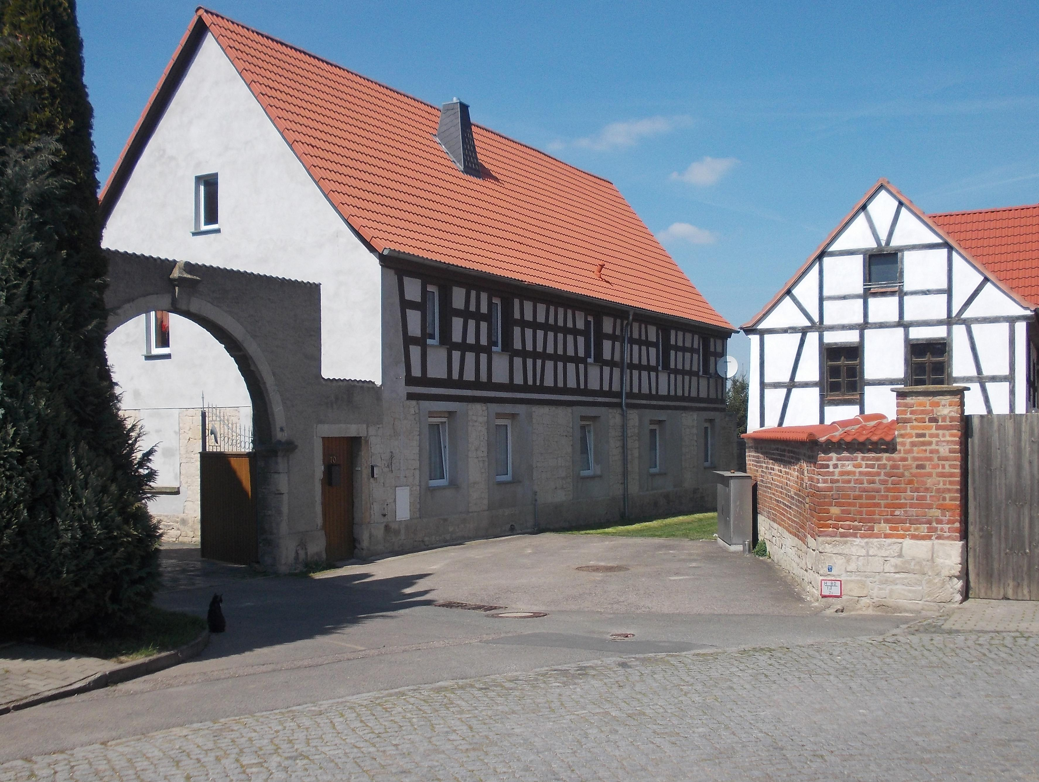 Half-timbered houses in Löbschütz (Naumburg, district: Burgenlandkreis, Saxony-Anhalt)